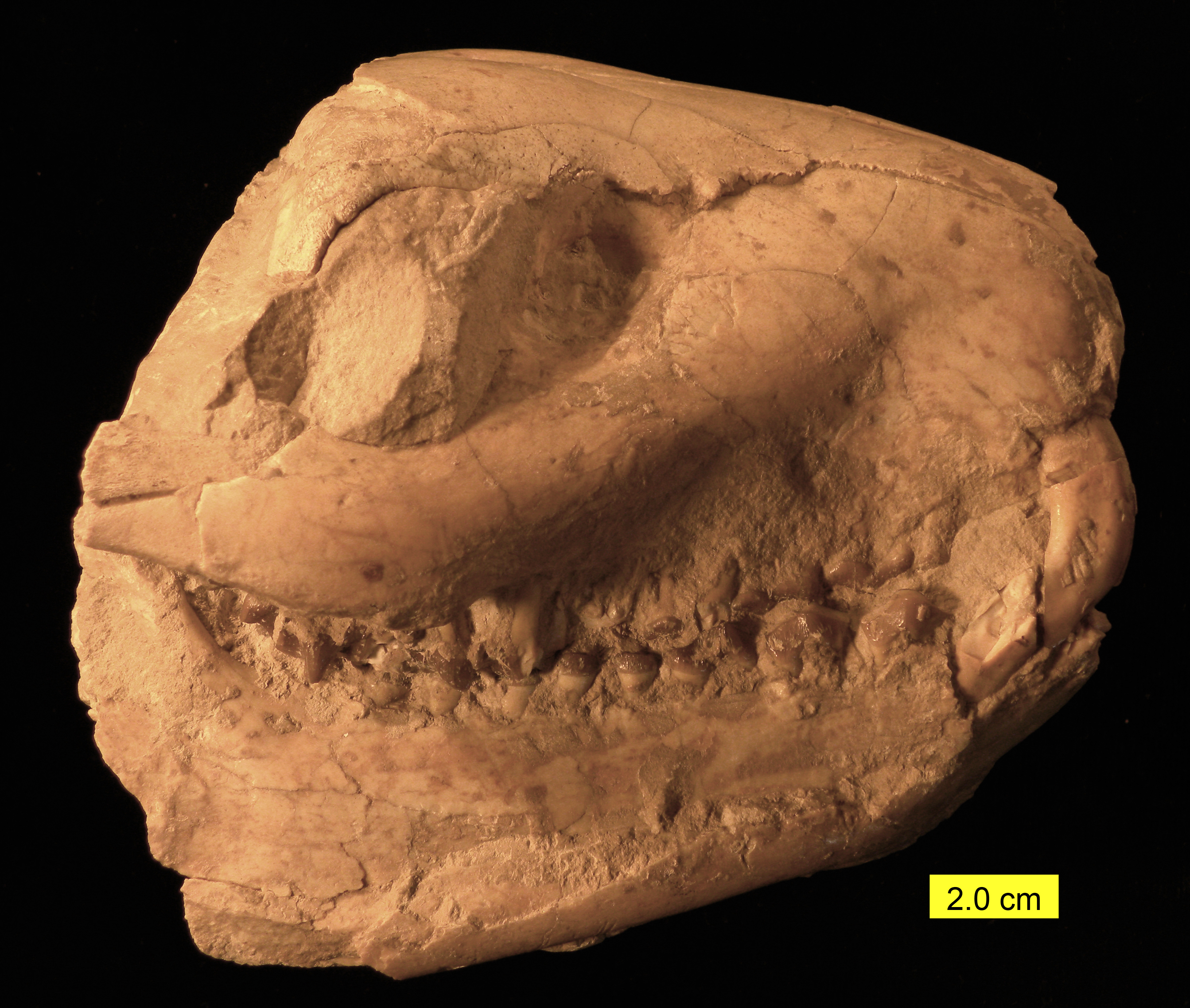 Merycoidodon skull, right side (Oligocene of Nebraska).